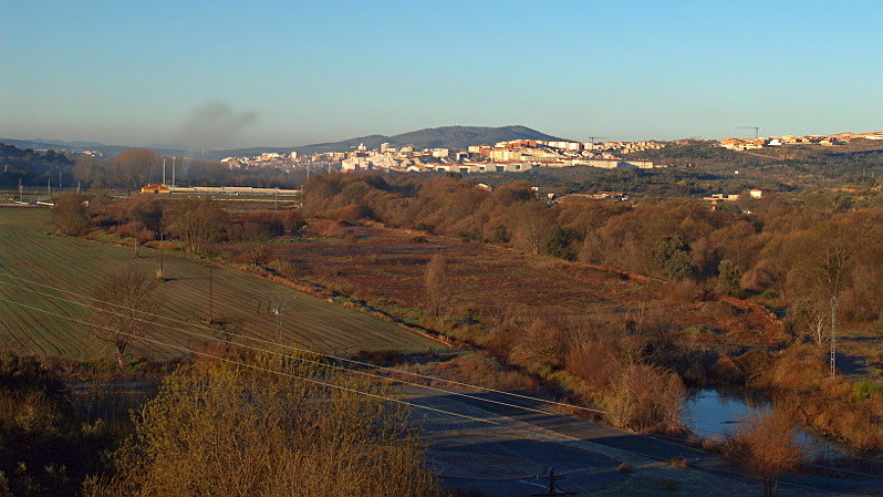 Plasencia seen from NE